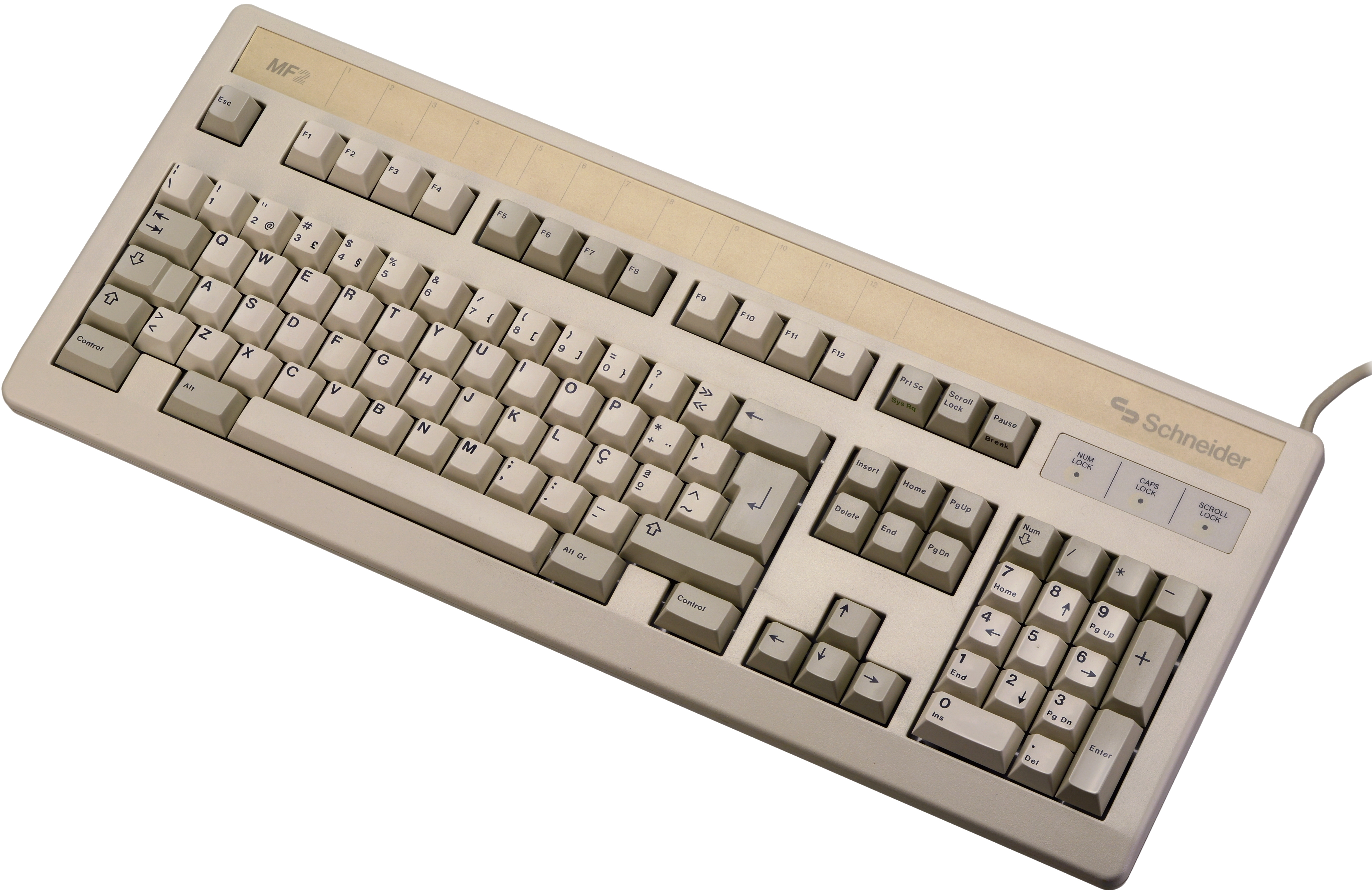 Deconstruction of the Schneider MF2, a membrane computer keyboard manufactured by Cherry from 1988. All key caps and inlays can be removed.